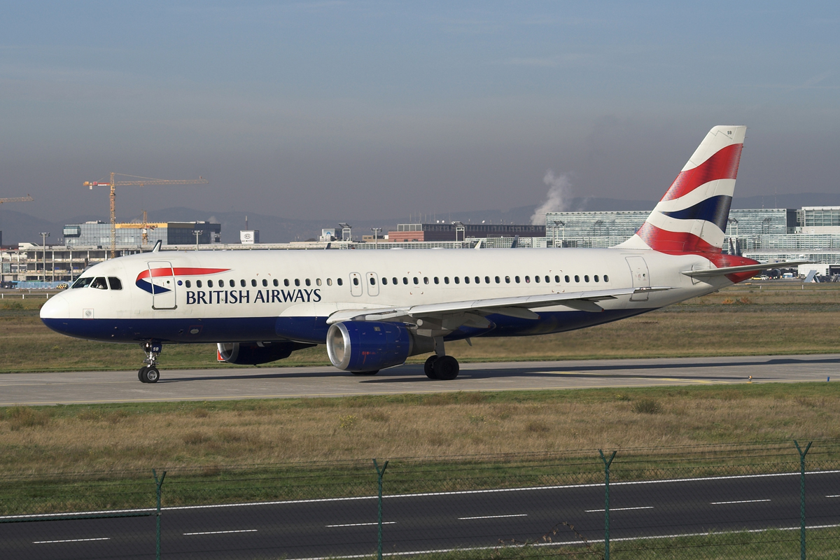 British Airways Airbus A320-100 G-BUSB in Frankfurt am Main.